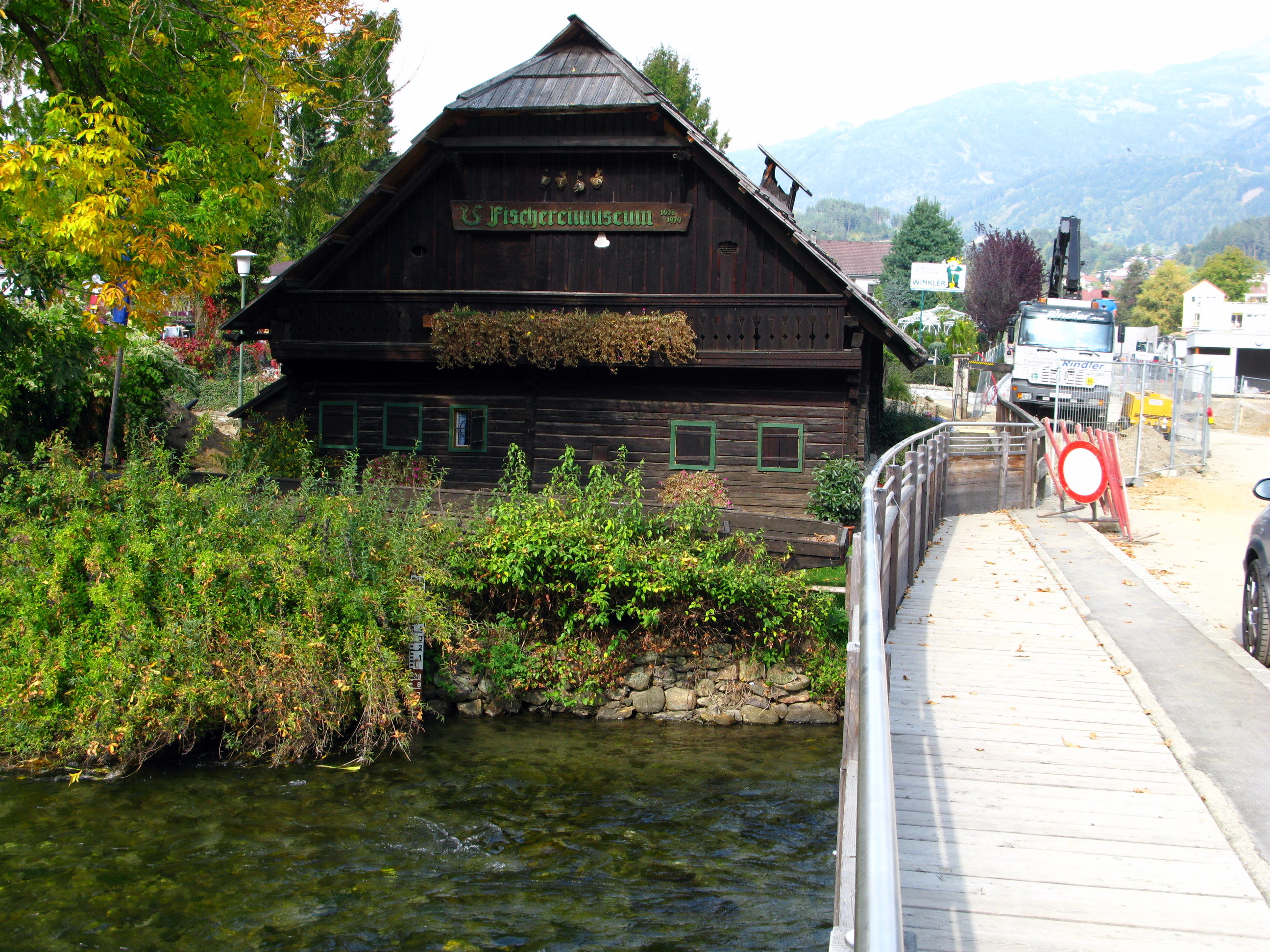 Old fisherman house near Lake Millstatt in Seeboden / Carinthia / Austria / European Union, currently a fisheries museum. View towards the north. In the background Tschiernock (2,082 m). The building for the fishing of salmon in the lake bottom bay was first mentioned in 1638. In 1980, the museum was constructed and equipped by Helmut Prasch, founder of the Museum of Folk Culture in Spittal. 2008, the museum was sold to the community of Seeboden, which shut in 2009 the museum. End of August 2011 opened the museum because of a private initiative of Families and Dr. Wolfgang Leitner Karl Winkler again.